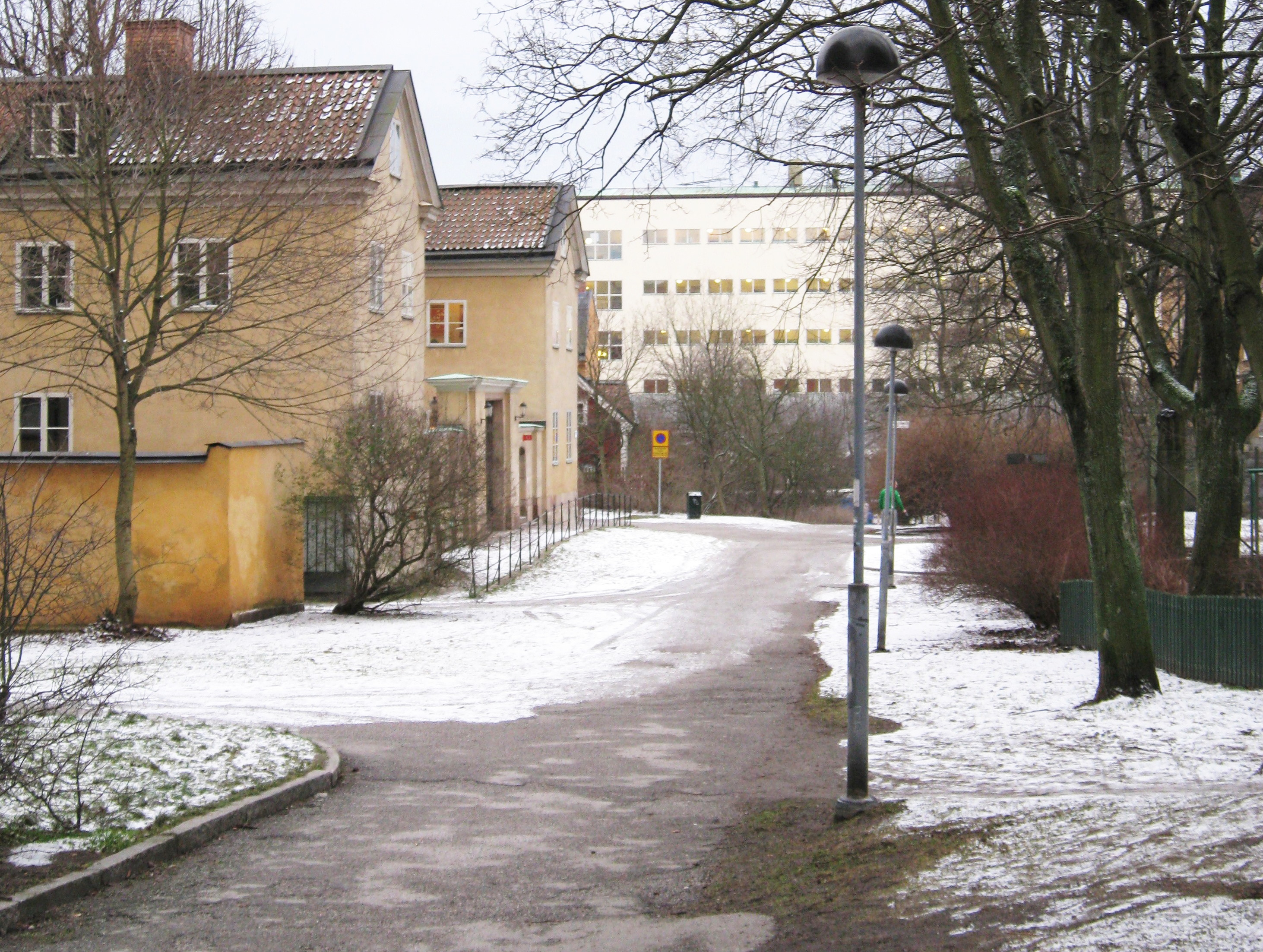 Ansgariegatan in Stockholm, Sweden